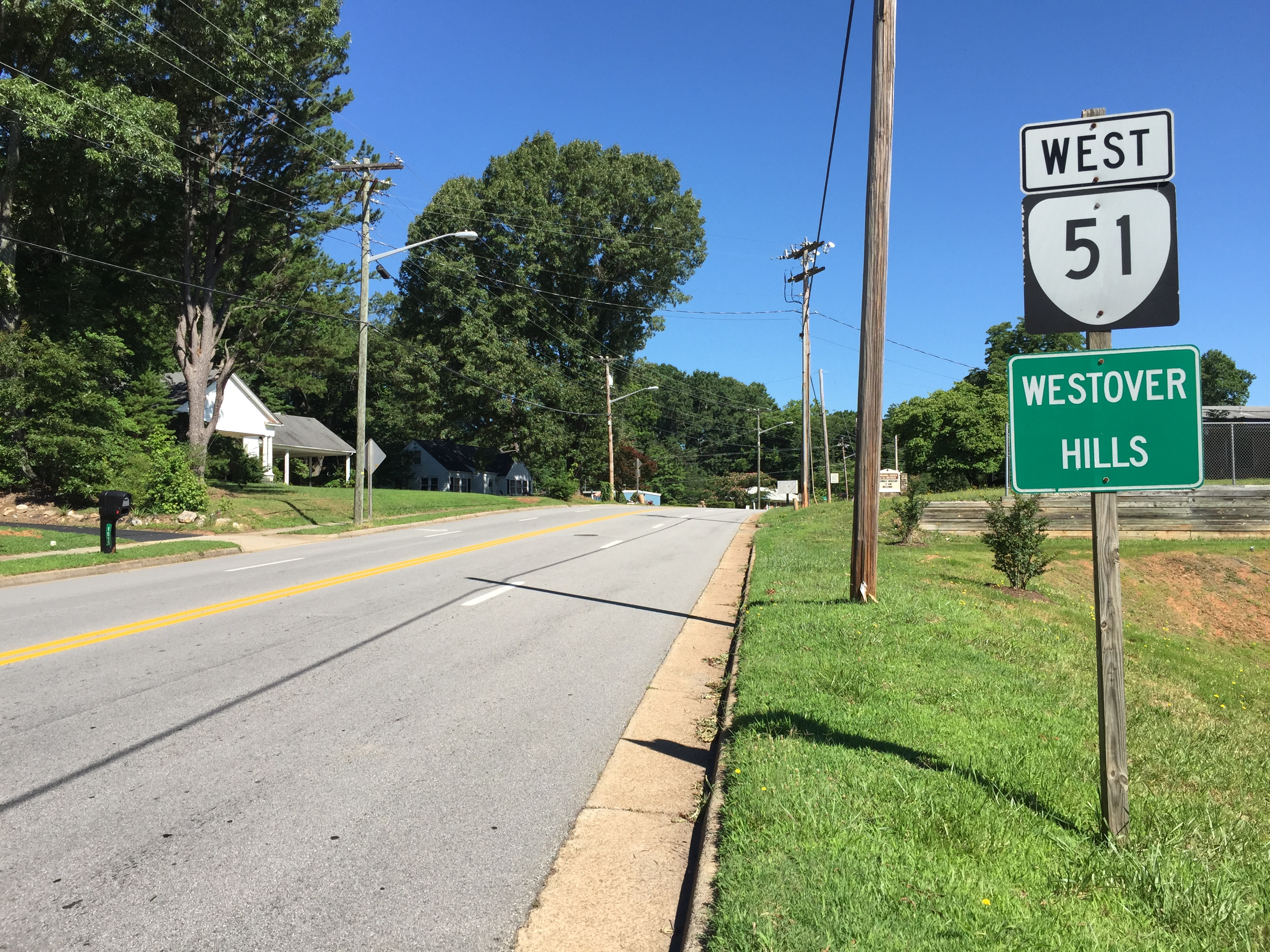 View west along Virginia State Route 51 (Westover Drive) at Blair Loop Road in Danville, Virginia